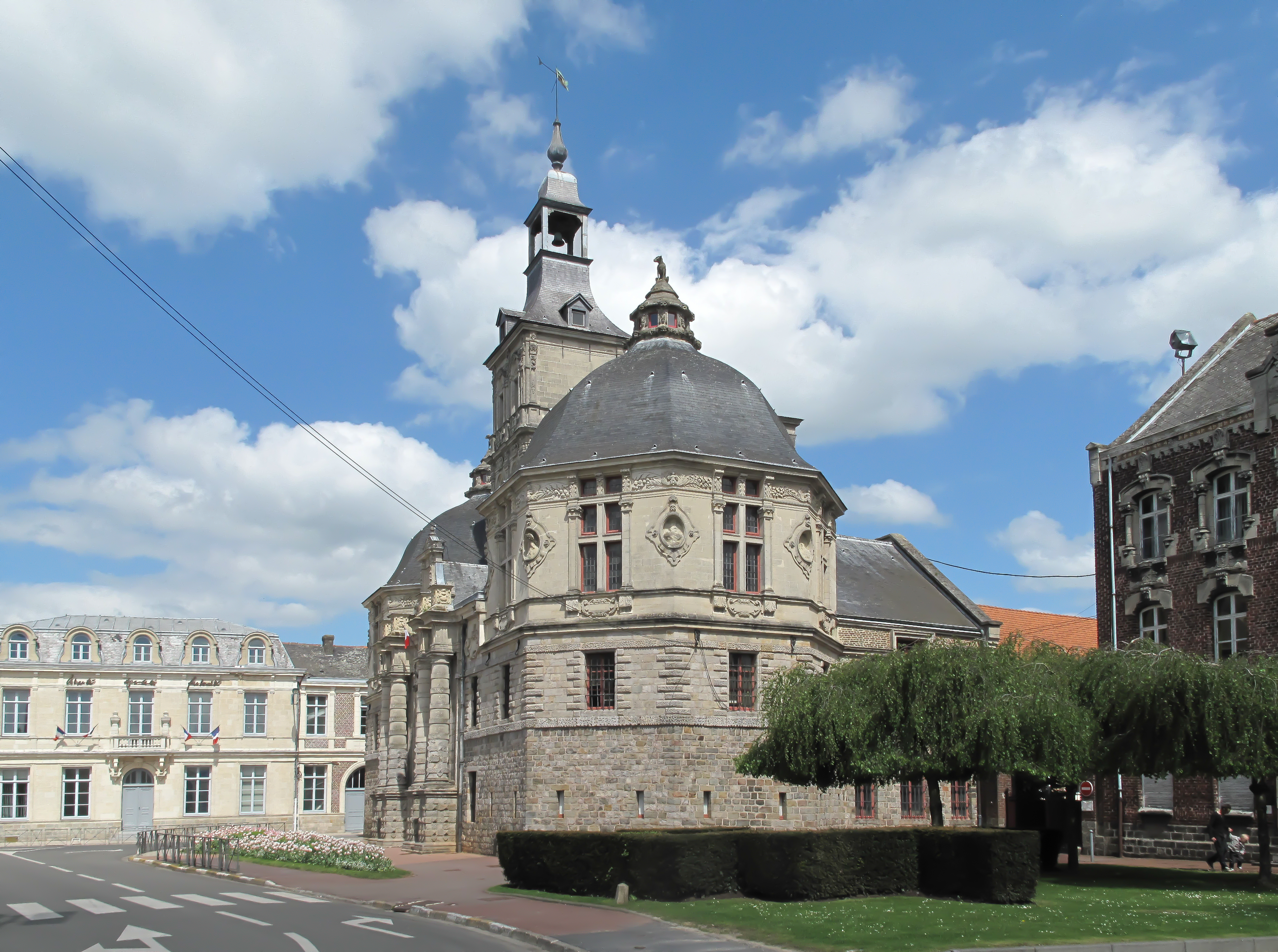 Saint Amand les Eaux, l'échevinage de l'abbaye